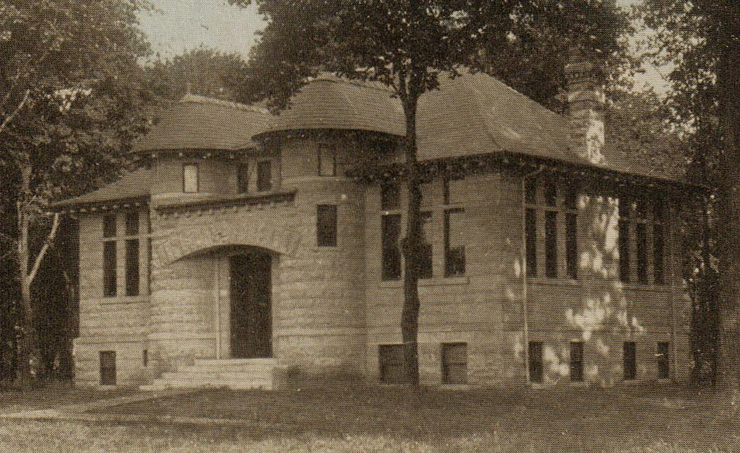 Image of El Paso, Illinois Carnegie Library. Located on West First Street between N. Sycamore and N. Elm Sts.